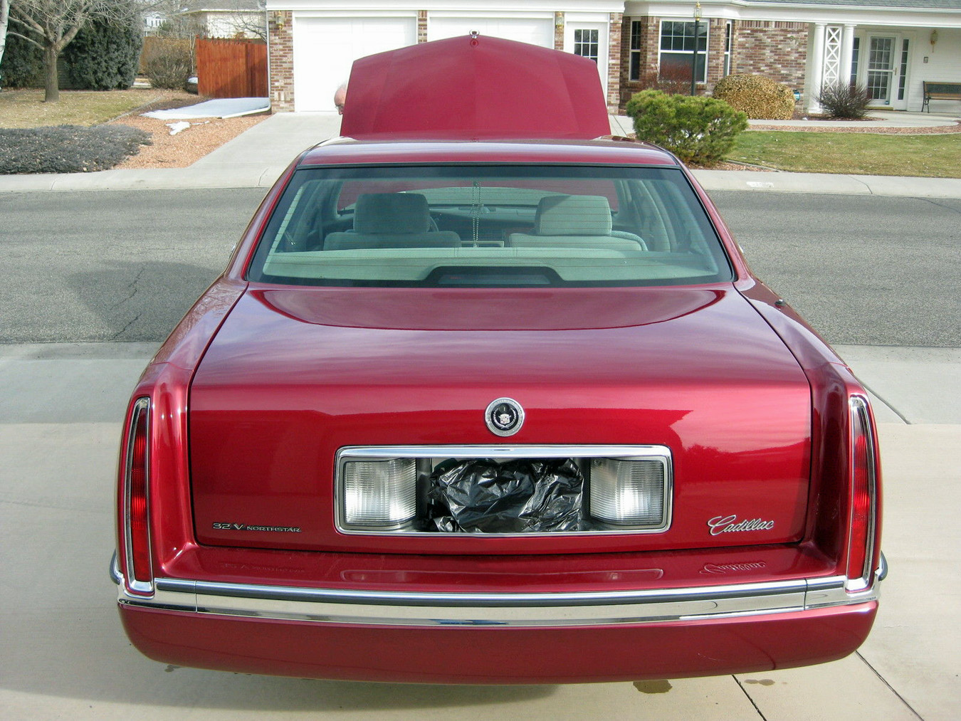 Rare to see with a cloth interior!